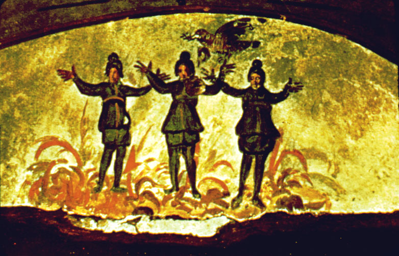 The symbolic story of tribulation and redemption is represented in this early Christian painting of the biblical story of The Three Hebrews in the Fiery Furnace. The ' is a story from the Book of Daniel in the Tanakh / Old Testament. The story is well-known among Jews and Christians. (see also Fiery furnace)